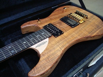 Washburn N4XX